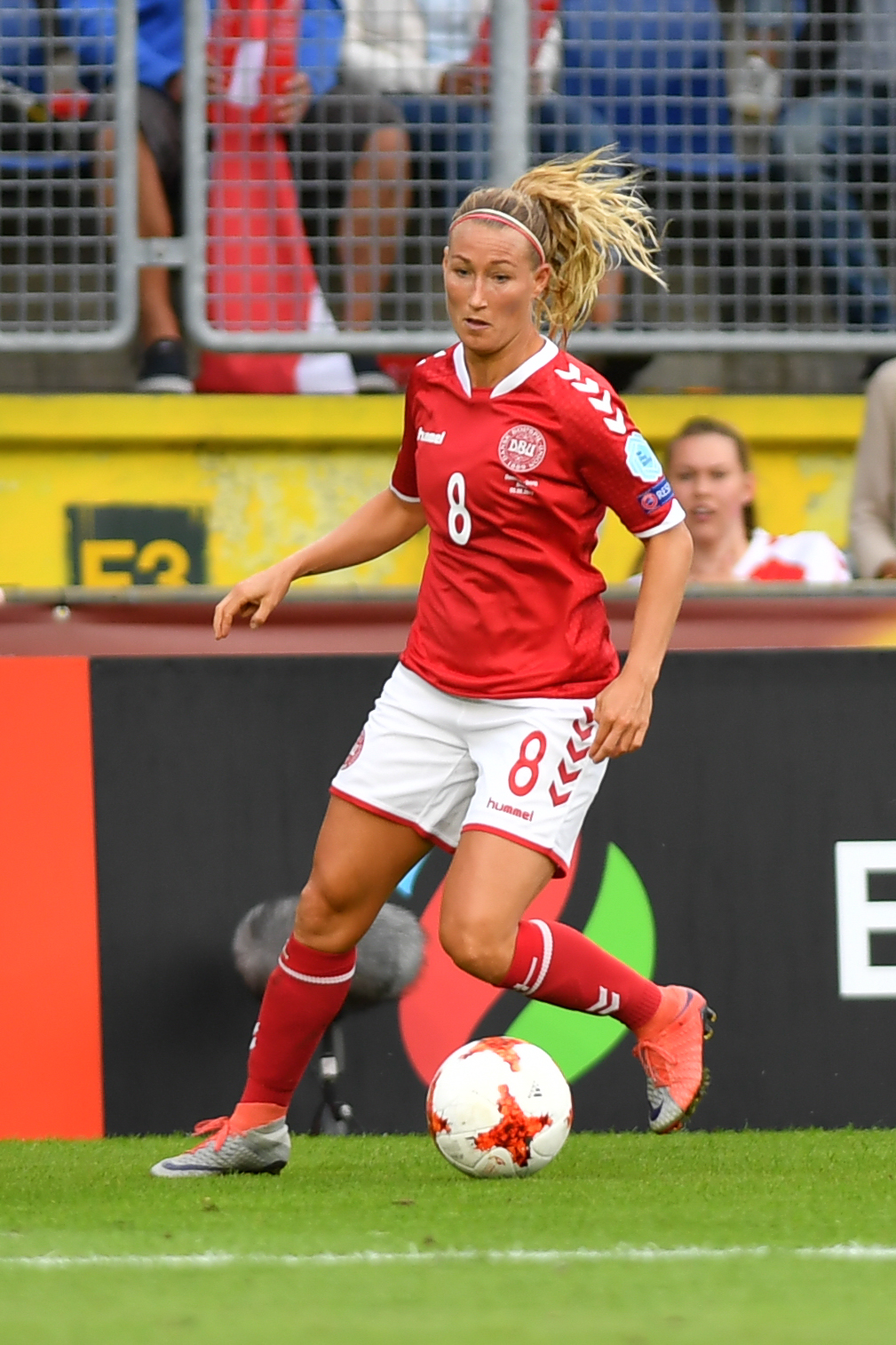 3/8/2017, Breda, Netherlands, sports, soccer, UEFA Women's Euro 2017 - Semifinal - Denmark vs Austria.